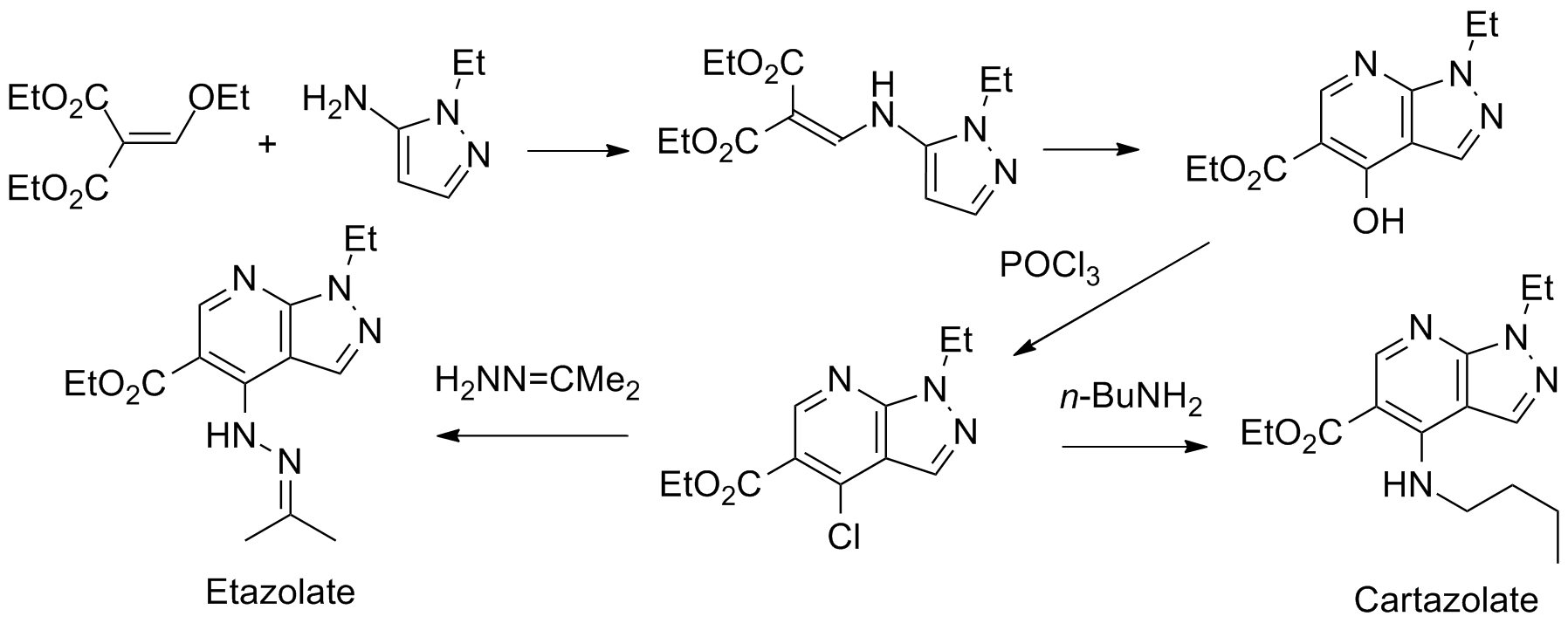 DE 2,123,318